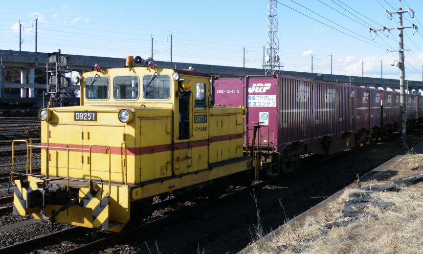 Freight train pulled by JT's 25t switcher type DB25 at Utsunomiya Freight Terminal in Tochigi Prefecture, Japan